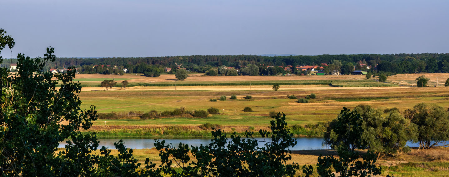 View over the Elbe to Grieben